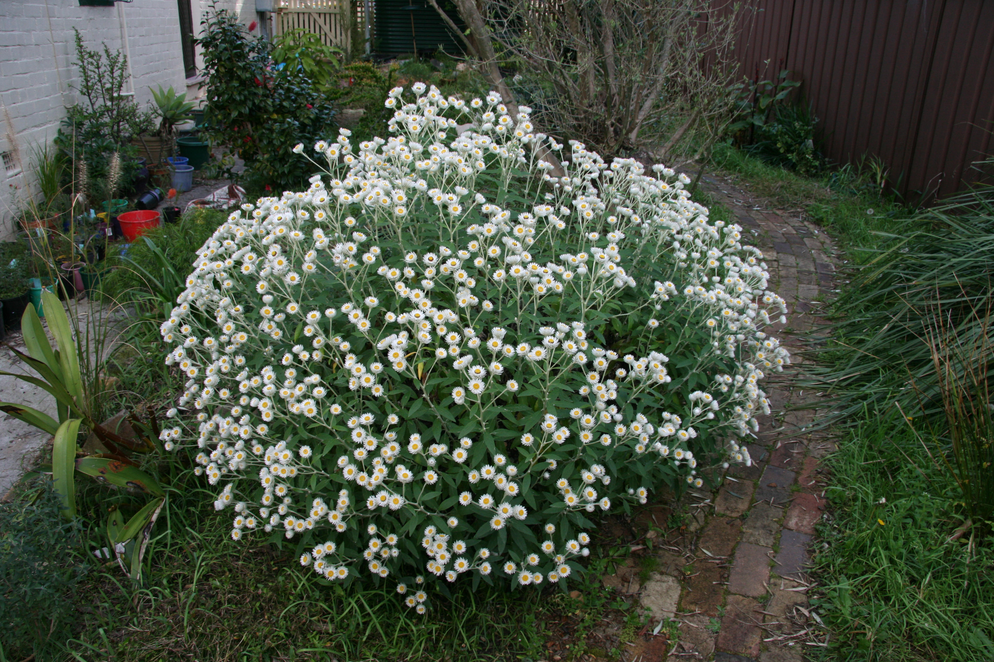 Coronidium elatum, cultivated in my garden.